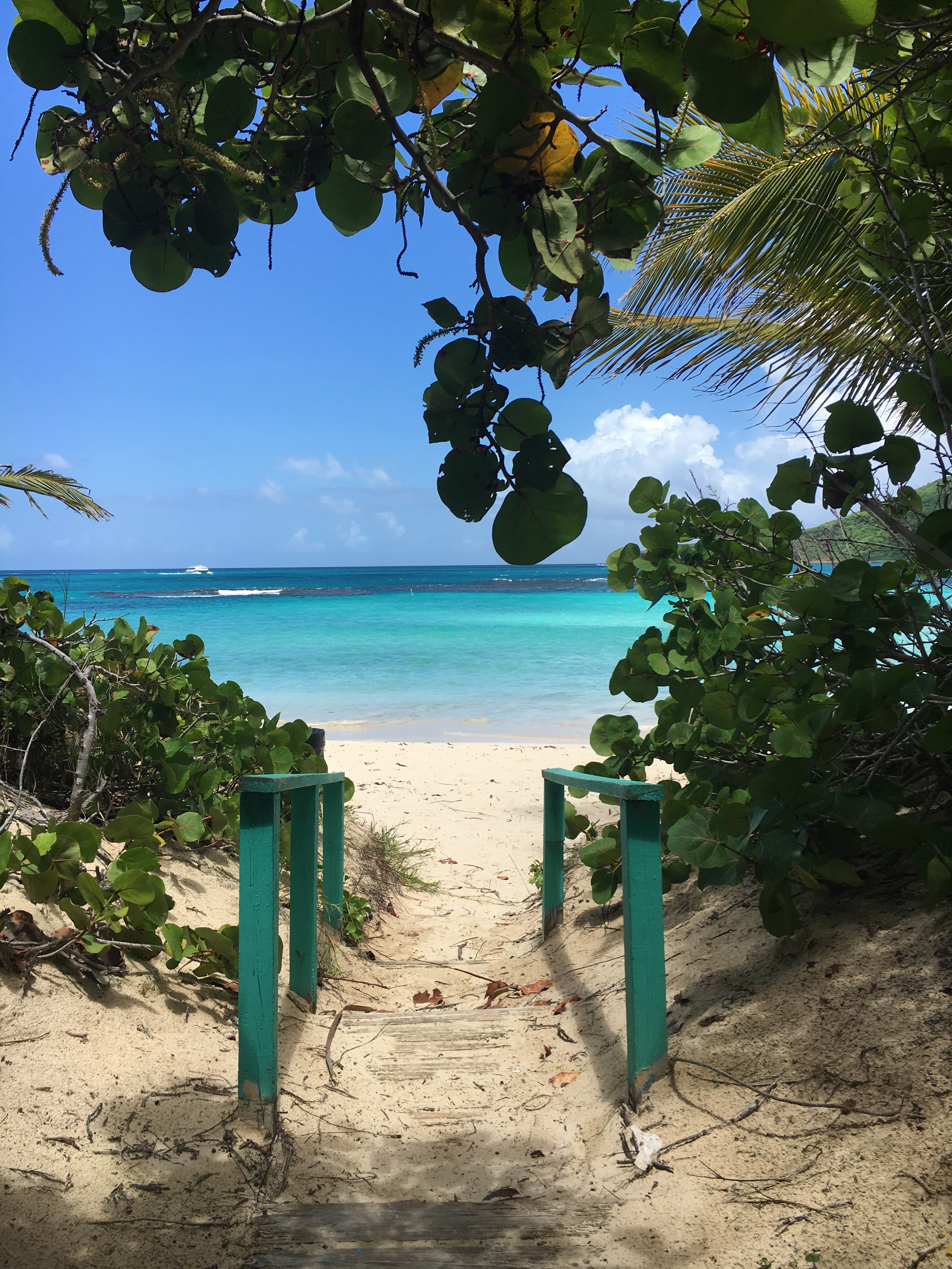 Flamenco Beach, Culebra, Puerto Rico